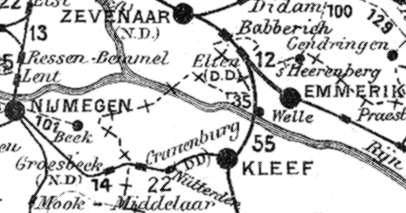 Detail of a railway map from 1904, showing the railroads from Nijmegen (NL) and Zevenaar (NL) to Kleve (D)